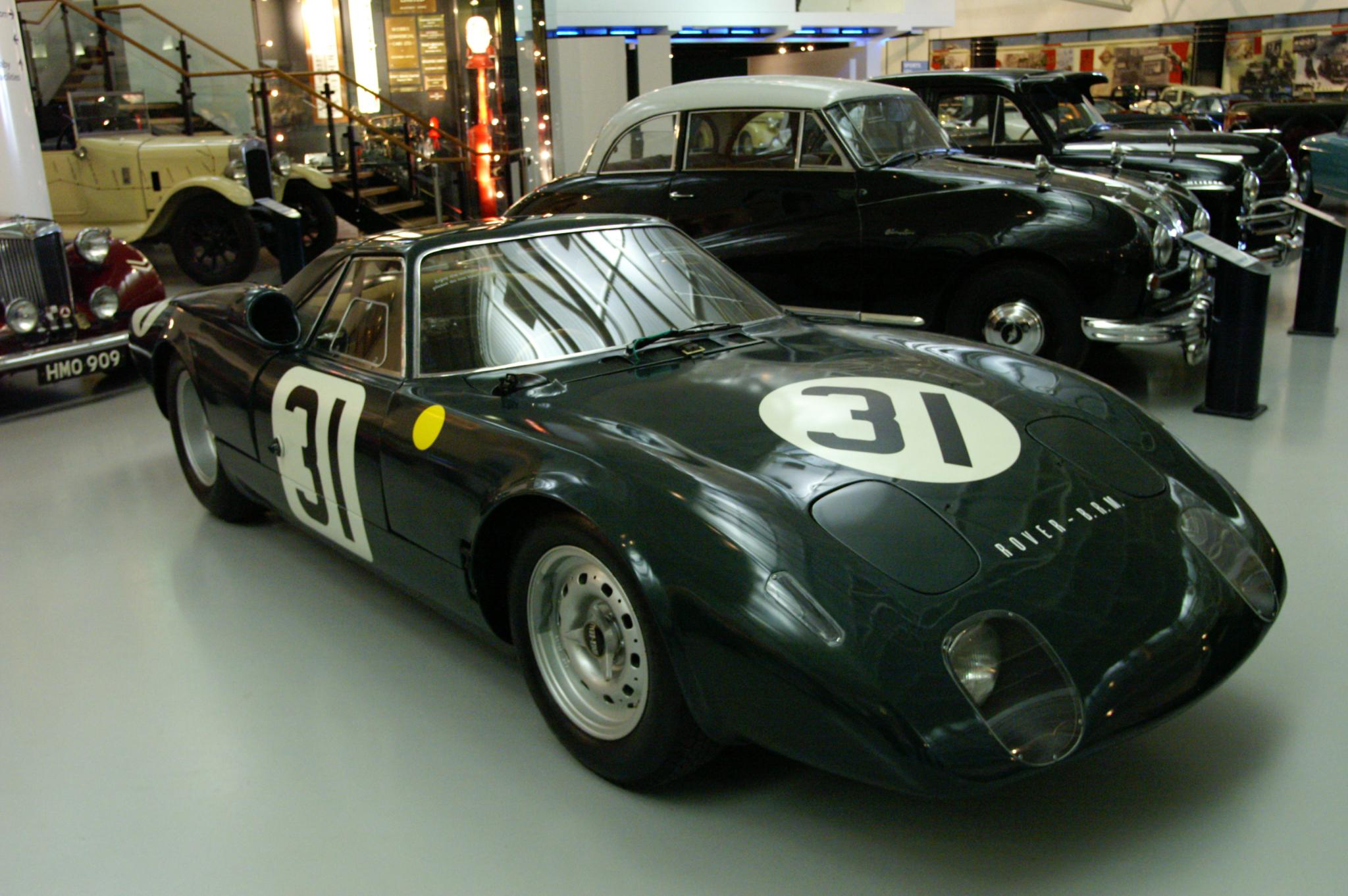 Heritage Motor Centre, Gaydon, Warwickshire